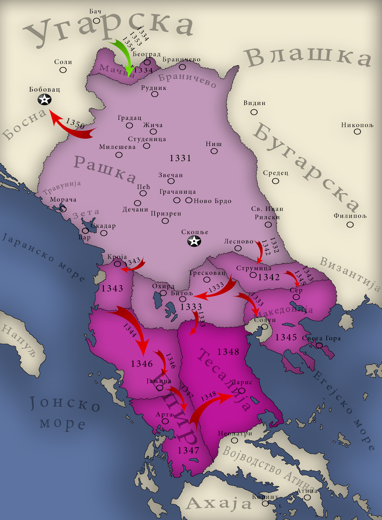 Tsar Dušan's conquest.